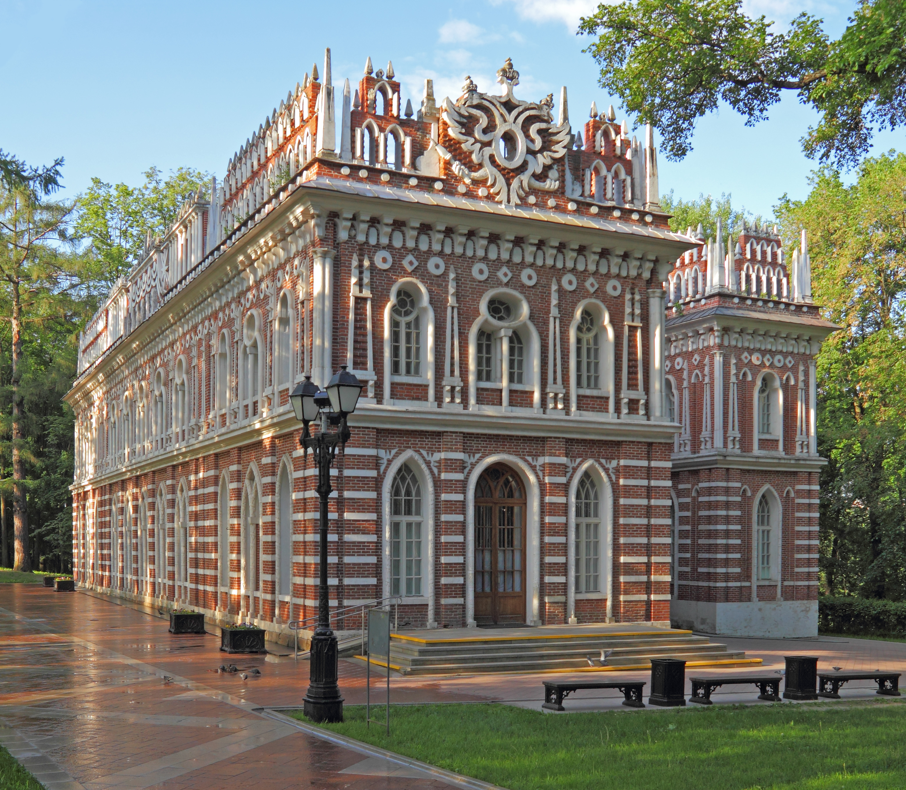 Moscow, Russia. Tsaritsyno Museum Reserve. Opera House.